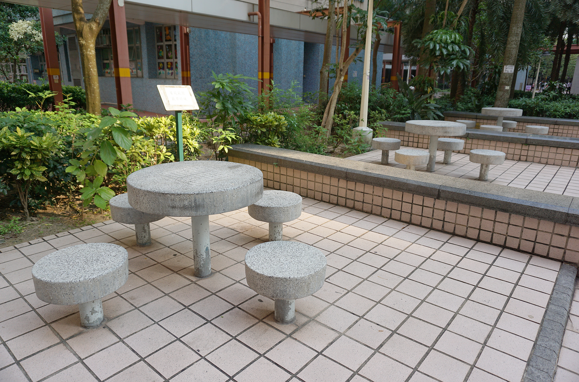 Oi Tung Estate in Shau Kei Wan, Hong Kong.